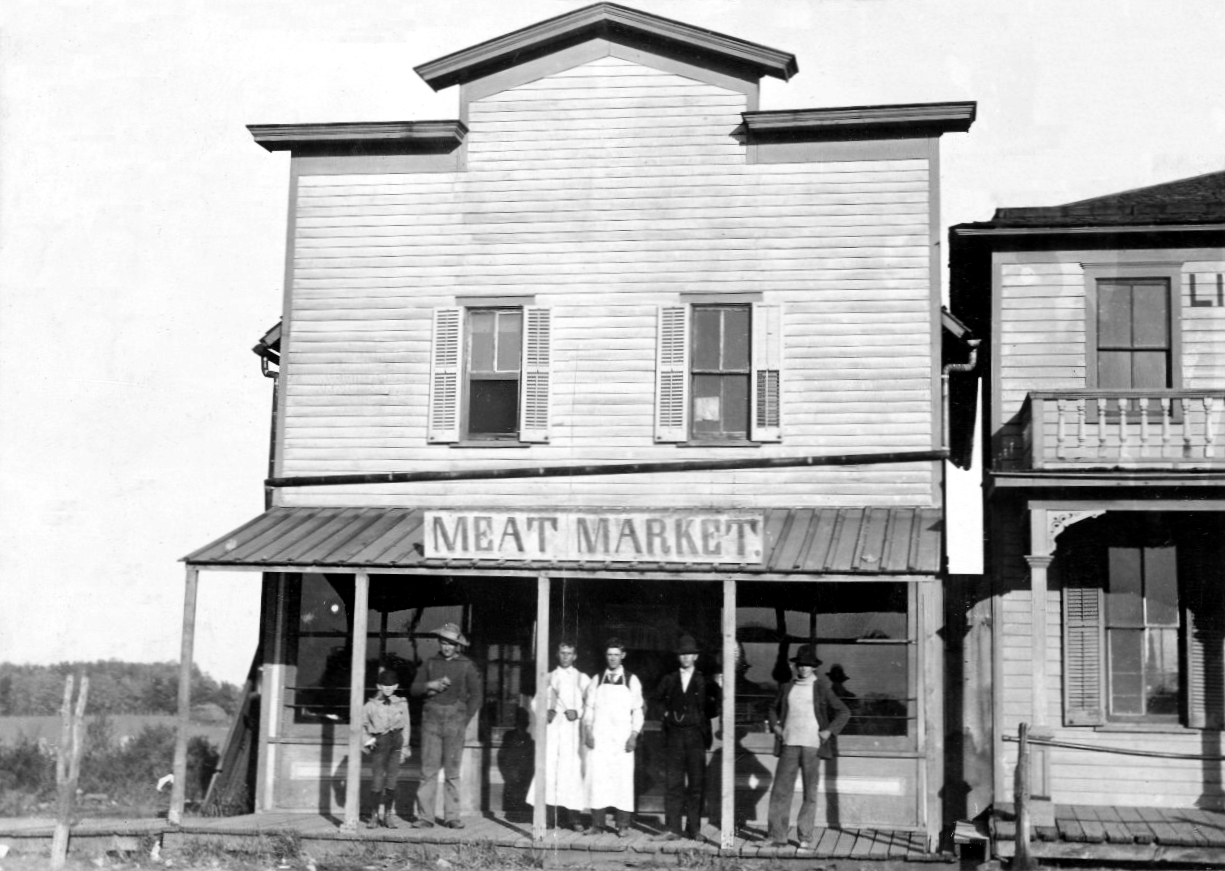 Butchers and other men standing in front of meat market. Cabinet card, Kansas Collection Photographs , University of Kansas